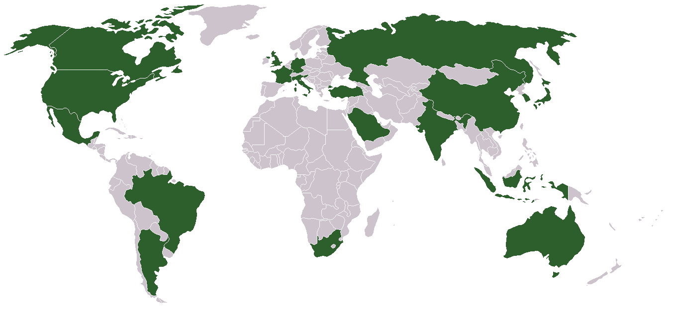 Members of G20 industrial nations